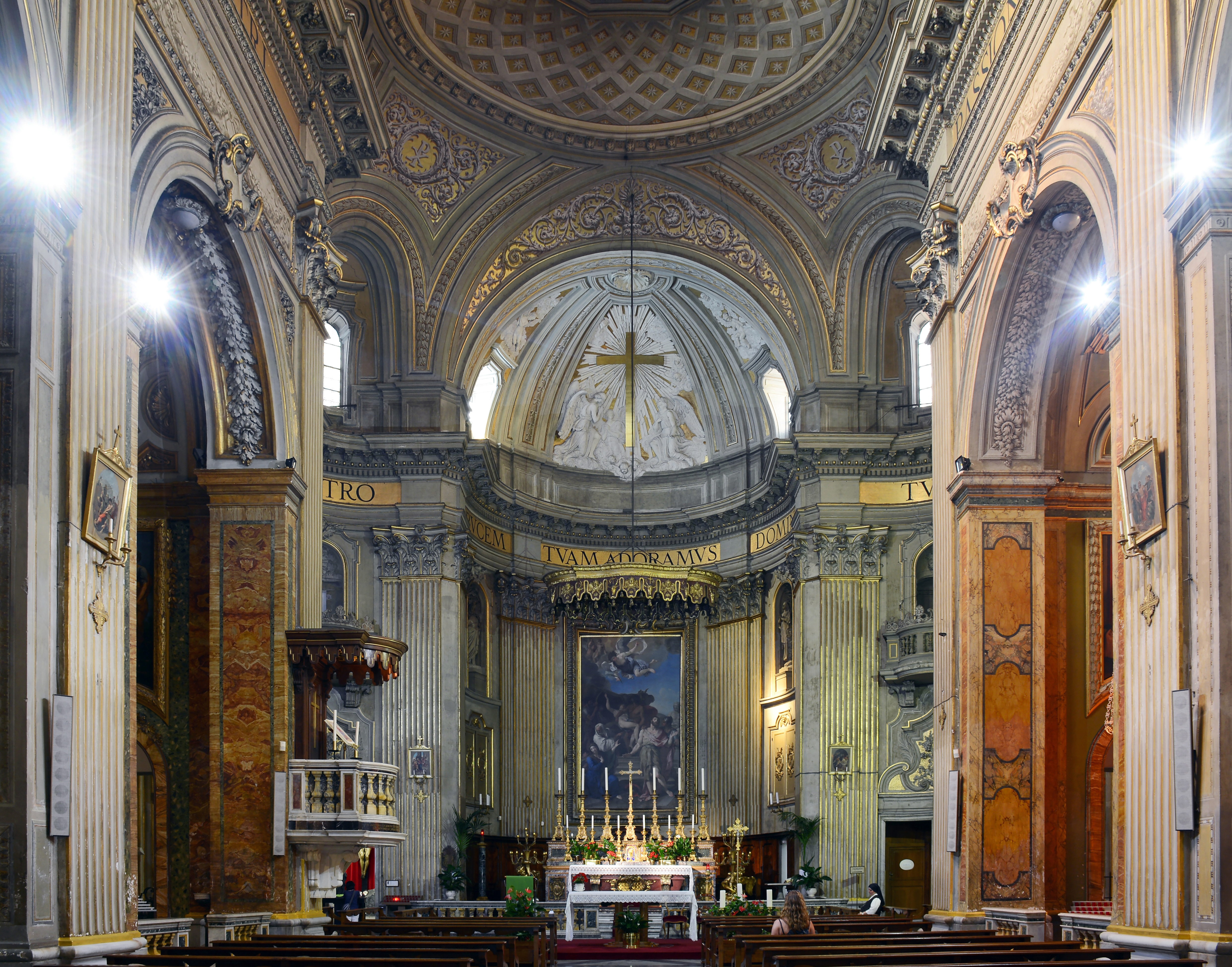 Sant'Eustachio (Rome) - Interior